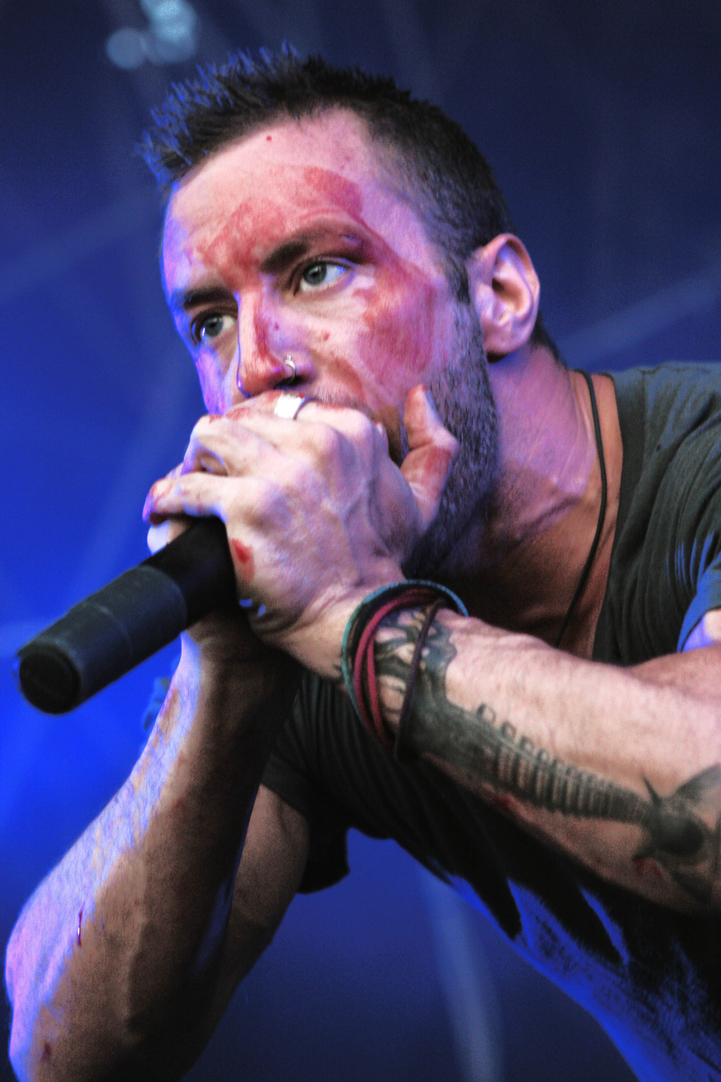 Greg Puciato (Lead Singer, "The Dillinger Escape Plan"). The photo was taken during the performance on the Picture On Festival in Bildein (Austria).